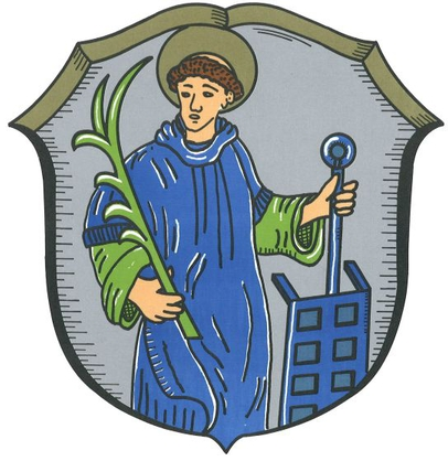 Coat of Arms of Zell am Main